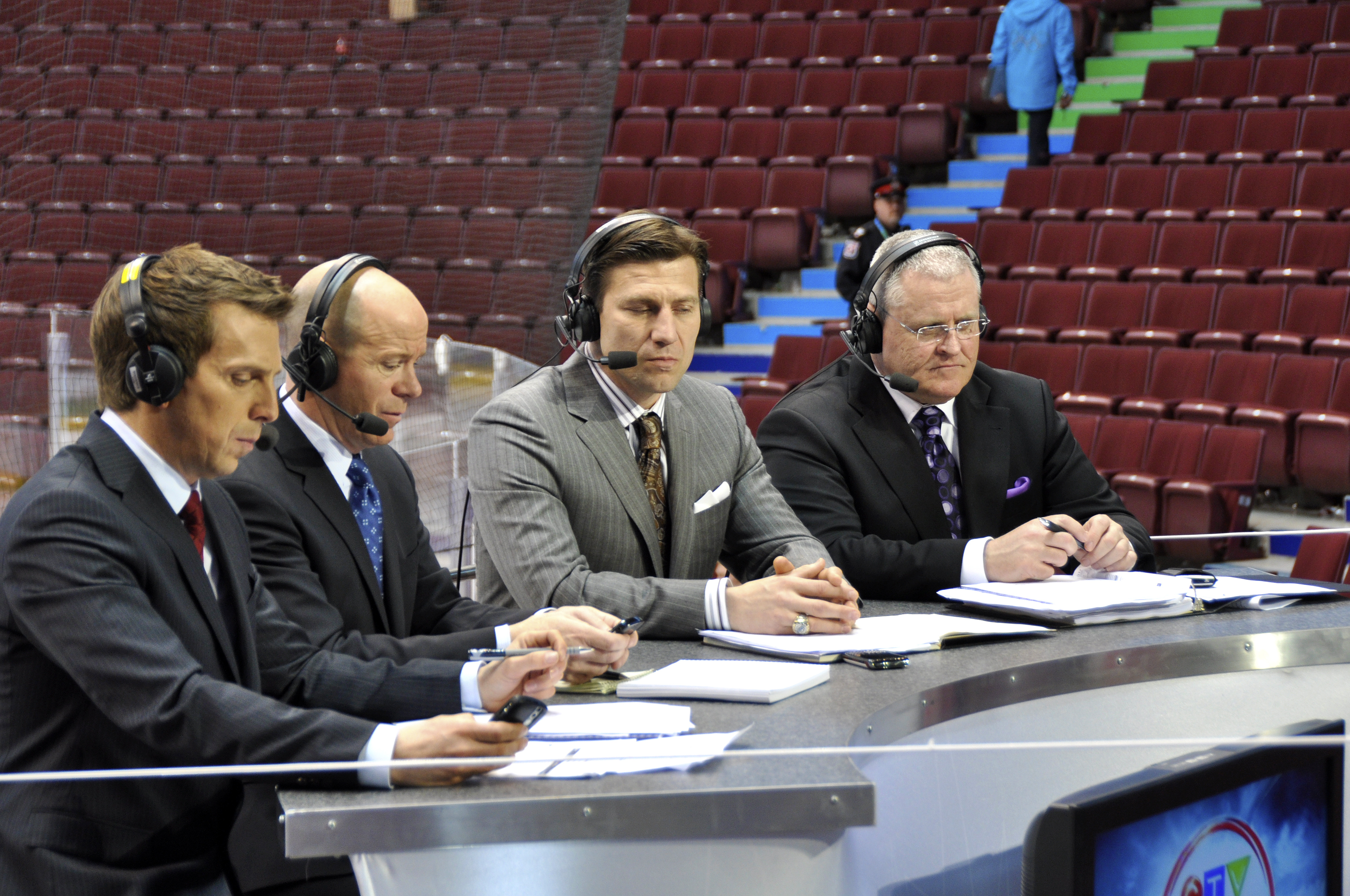 CTV broadcasting at the 2010 Winter Olympics. From left to right: James Duthie, Darren Pang, Nick Kypreos and Bob McKenzie